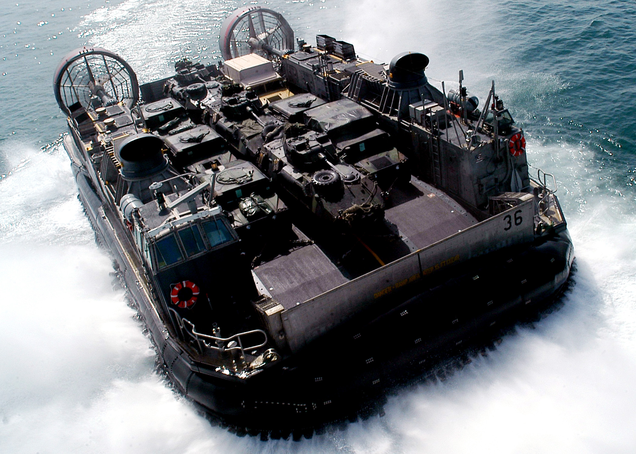 At sea aboard the amphibious assault ship USS Kearsarge (LHD 3) (Feb. 15, 2002) -- A Landing Craft, Air Cushioned (LCAC) assigned to Assault Craft Unit 4 (ACU-4) leaves the well-deck of the Kearsarge while transporting equipment and personnel from the 2d Marine Expeditionary Brigade. U.S. Navy photo by Photographer’s Mate 2nd Class Alicia Tasz. (RELEASED)